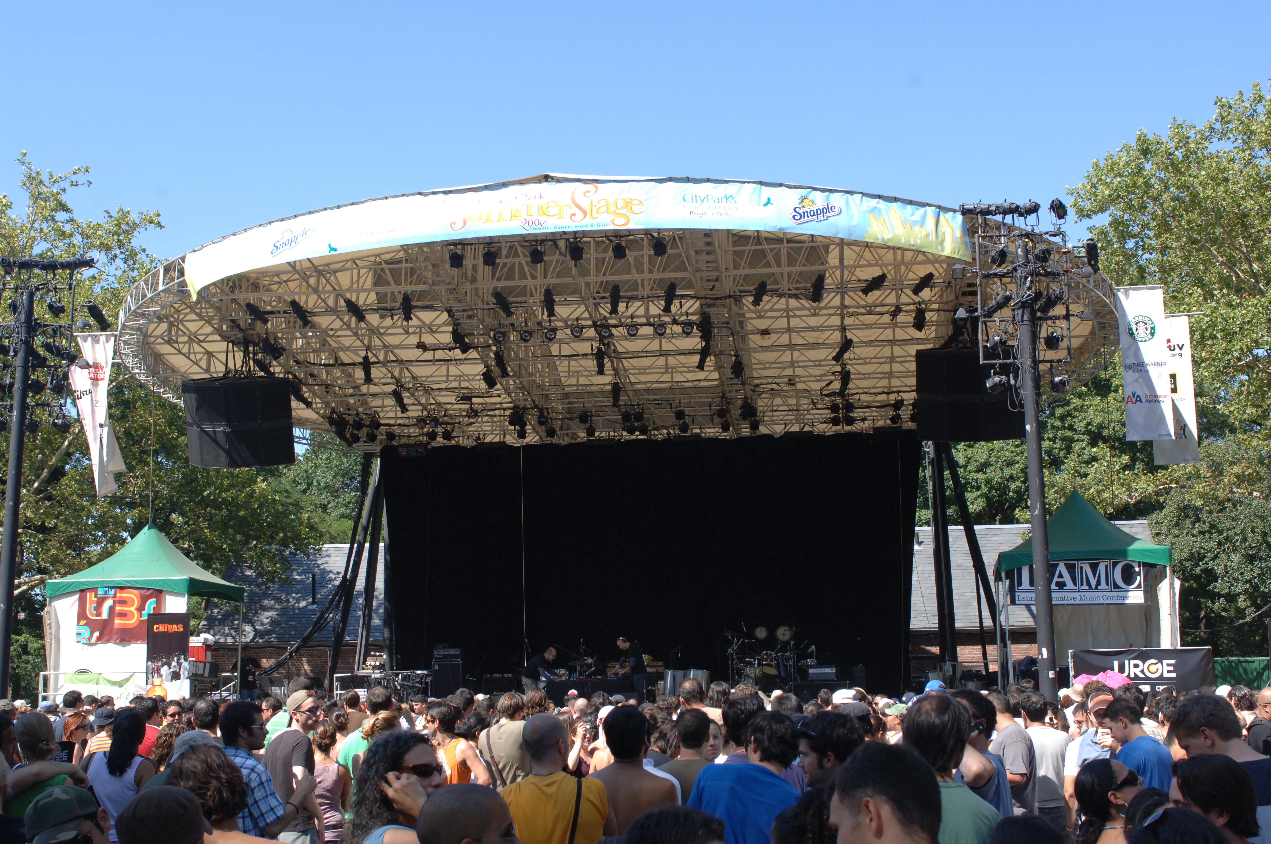 Summer Stage in Central Park, New York City